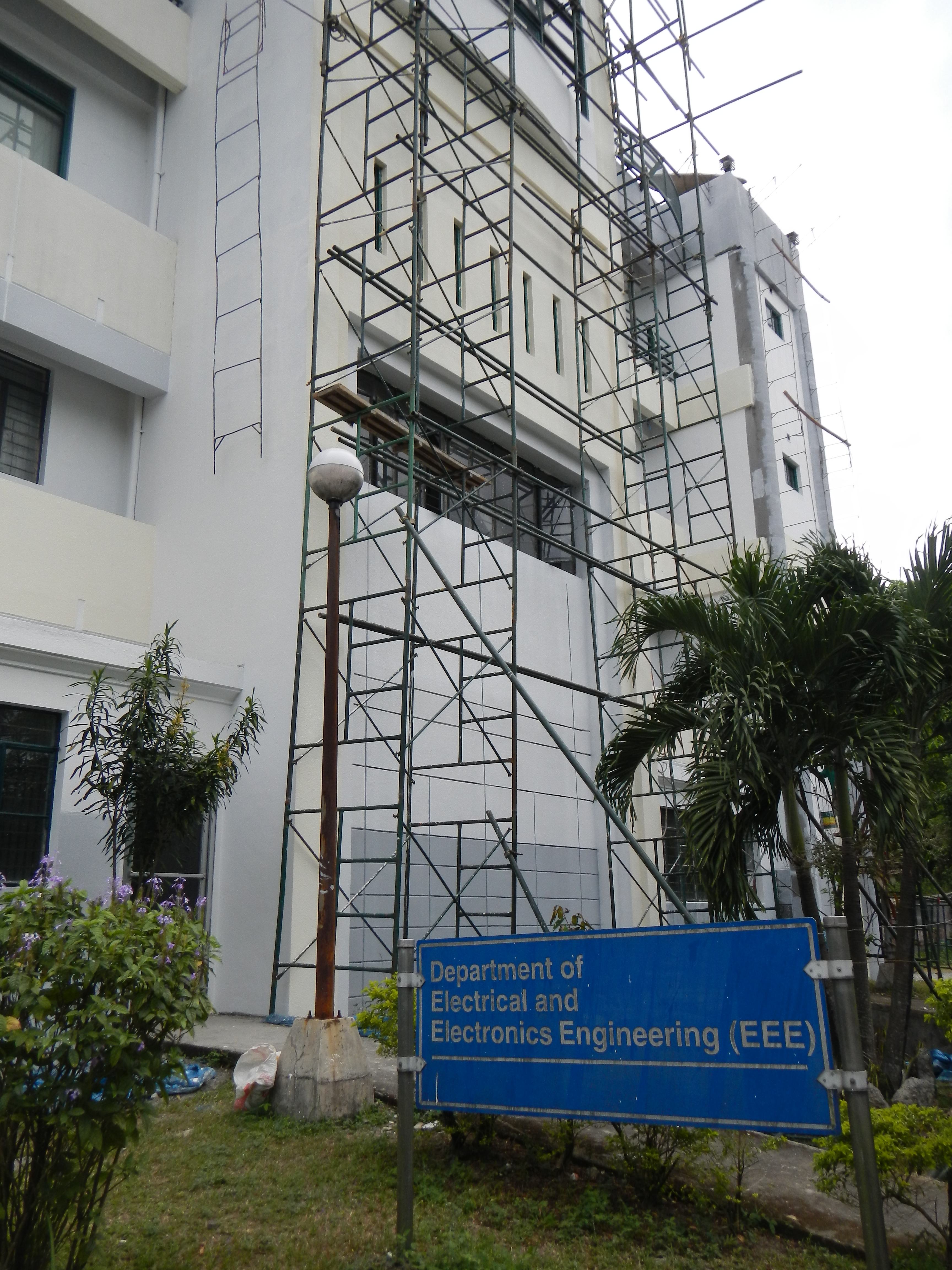 UP Diliman Electrical and Electronics Engineering Institute[1] Velasquez Street [2] The Electrical and Electronics Engineering Institute (formerly Department of Electrical and Electronics Engineering) of the University of the Philippines College of Engineering[3] (UP EEEI) University of the Philippines Diliman[4] offers three undergraduate programs of study leading to the Bachelor of Science in Electrical Engineering (BSEE), Bachelor of Science in Electronics and Communications Engineering (BSECE), and Bachelor of Science in Computer Engineering (BSCoE) degrees. The Institute also offers graduate programs of study leading to the Master of Science in Electrical Engineering (MSEE) and Master of Engineering in Electrical Engineering (MEEE) degrees, and the Doctor of Engineering (DE) and Doctor of Philosophy (PhD) degrees in Electrical and Electronics Engineering. Various areas of specialization are offered in the graduate programs: Electric Power Engineering, Computer and Communications Engineering, Microelectronics, and Instrumentation and Control.[5]Coordinates: 14°38'58"N 121°4'6"EJoel Joseph S. Marciano Jr., PhD Director